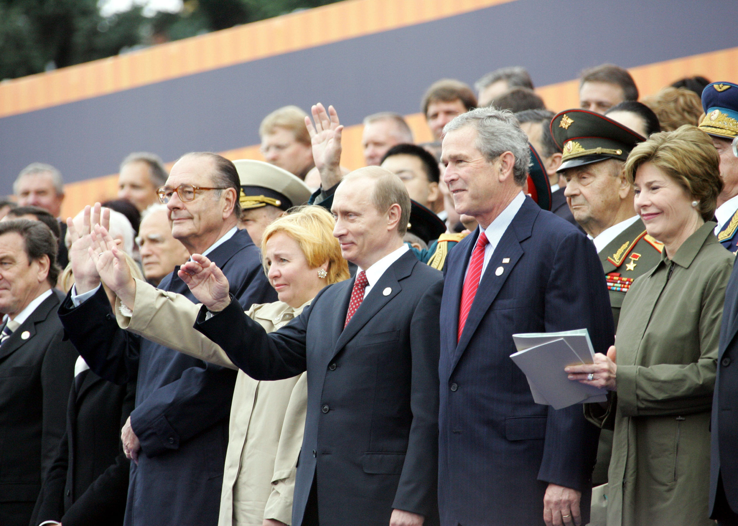 RED SQUARE, MOSCOW. At the military parade celebrating the sixtieth anniversary of victory in World War II.